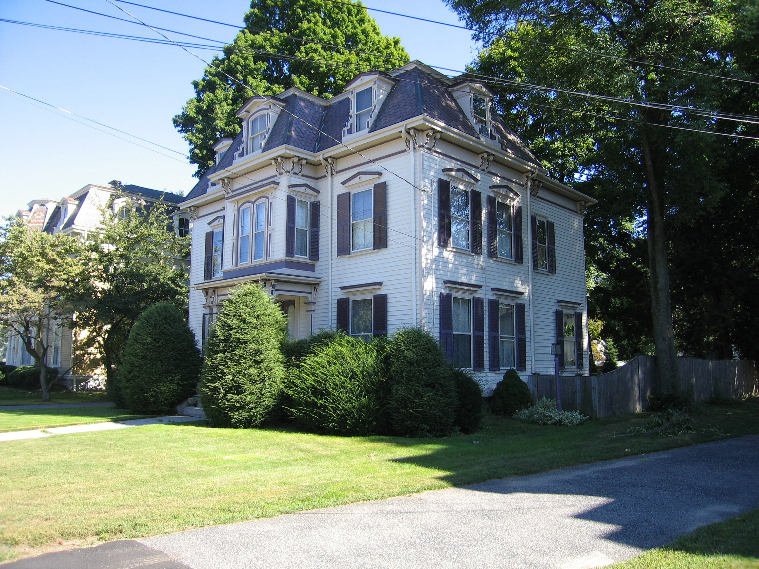 76 West Central Street, Natick, Massachusetts - The Mary Clark Whitney House